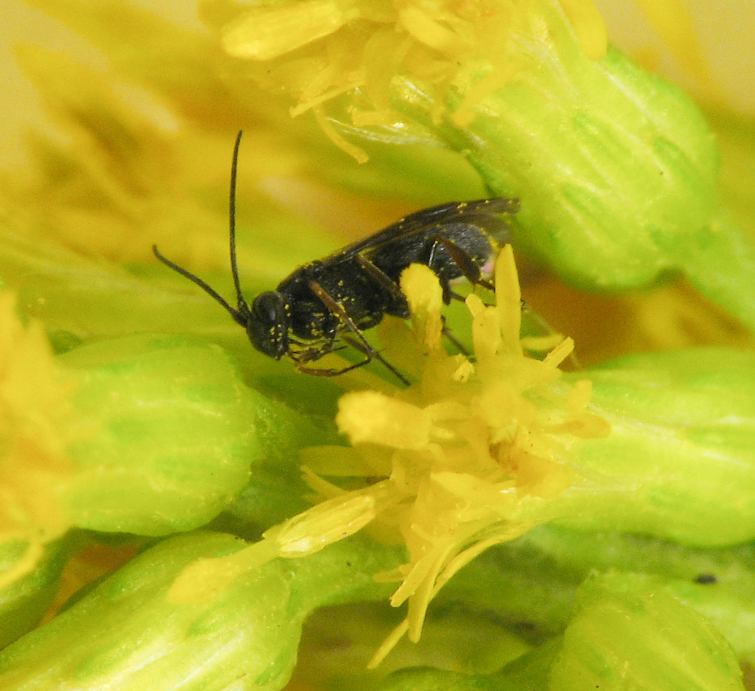 Braconid wasp, Chelonus, on goldenrod. Size: 3 mm. or less. Willow Grove, Montgomery County, Pennsylvania, USA.